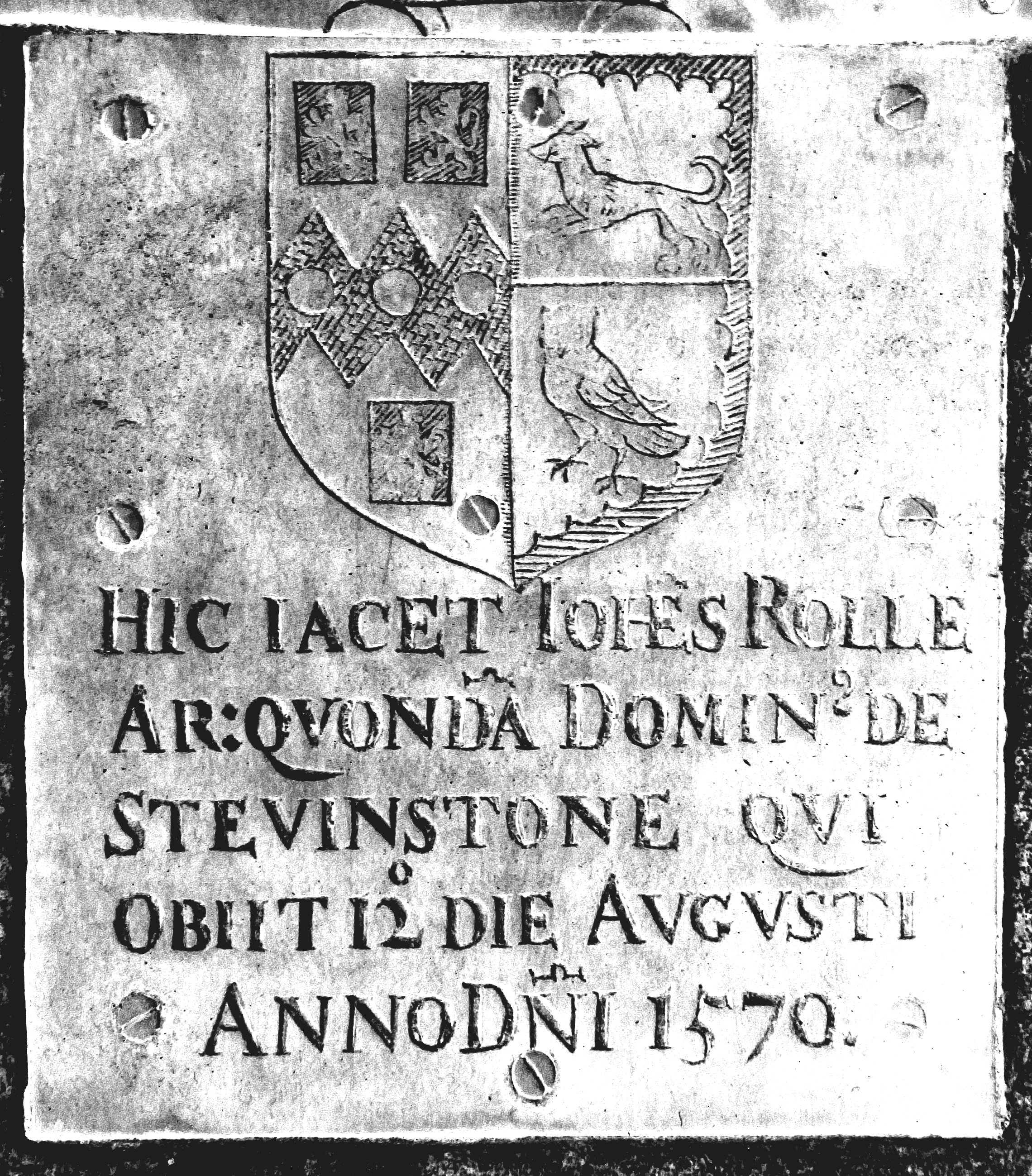 Monumental brass of John Rolle, Esq., (d.1570), of Stevenstone, inlaid in floor of south aisle, parish church of St Giles in the Wood, Devon. Originally on his 2 1/2 foot high chest tomb in the chancel, as reported by John Prince in his "Worthies of Devon". 8" * 7 1/4". Photo in black & white, negative image.